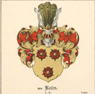 Swedish, Estonian and Russian noble COA Rosen